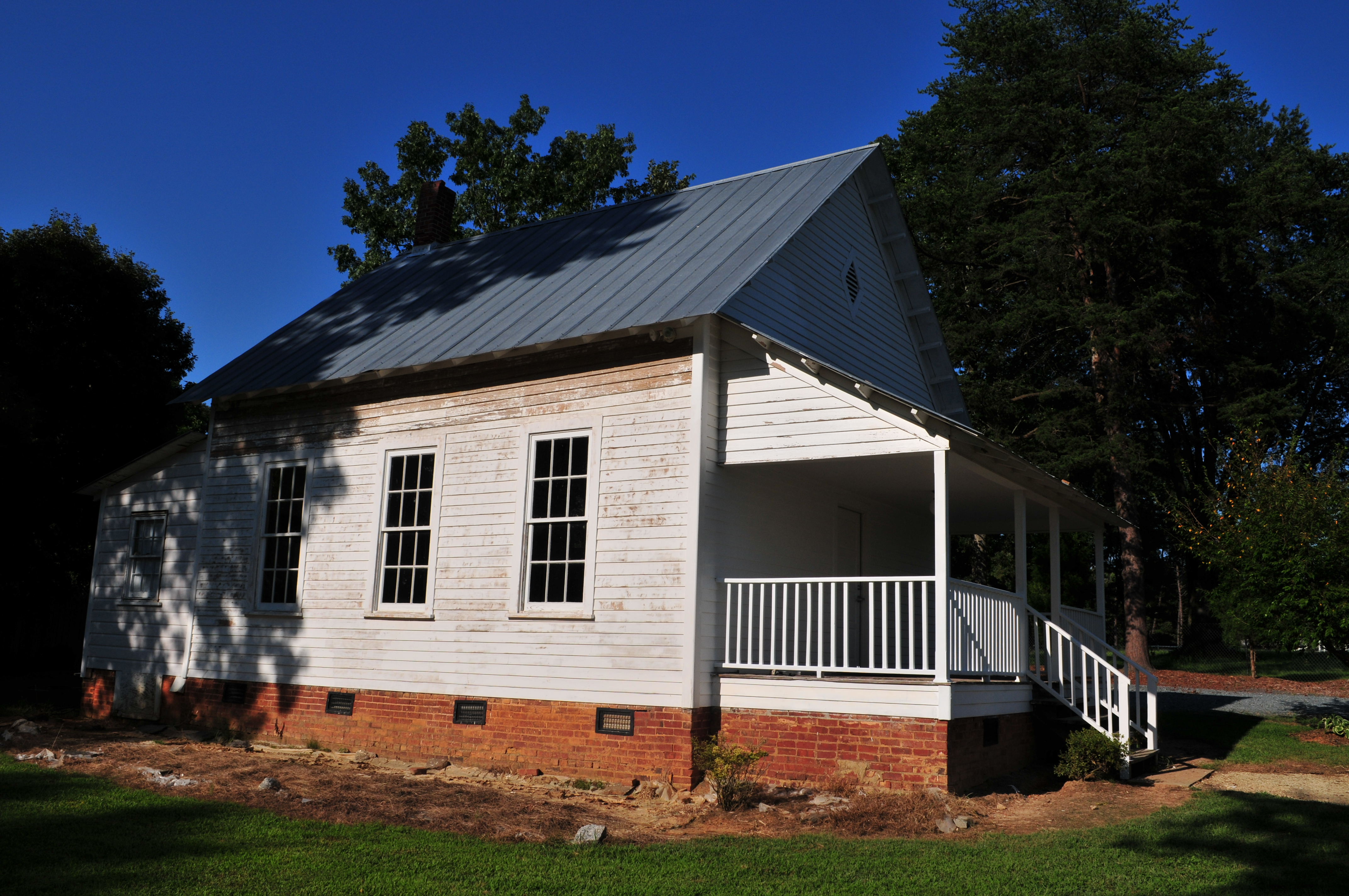 Oak Grove School, Oak Grove Circle, 0.3 miles (0.48 km) east of the junction with Bethabara Rd. Winston-Salem